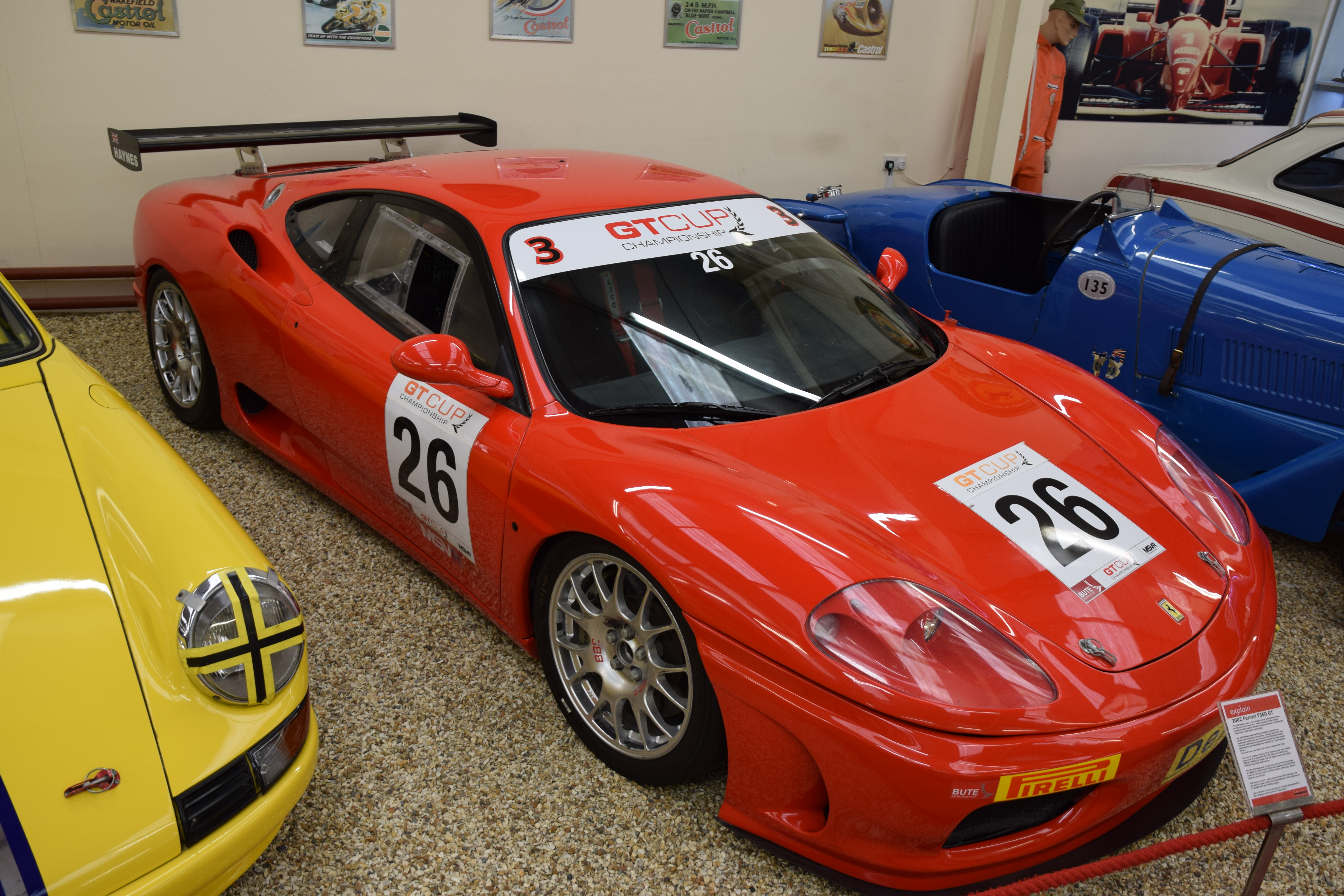 2002 Ferrari F360T Modena at the Haynes International Motor Museum, Sparkford, 8 May 2017.